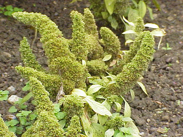 Species: Amaranthus caudatus Family: Amaranthaceae Image No. 3